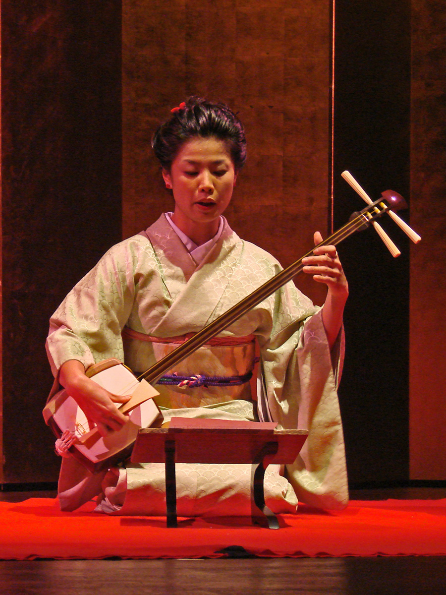 Fumie Hihara plays the shamisen.